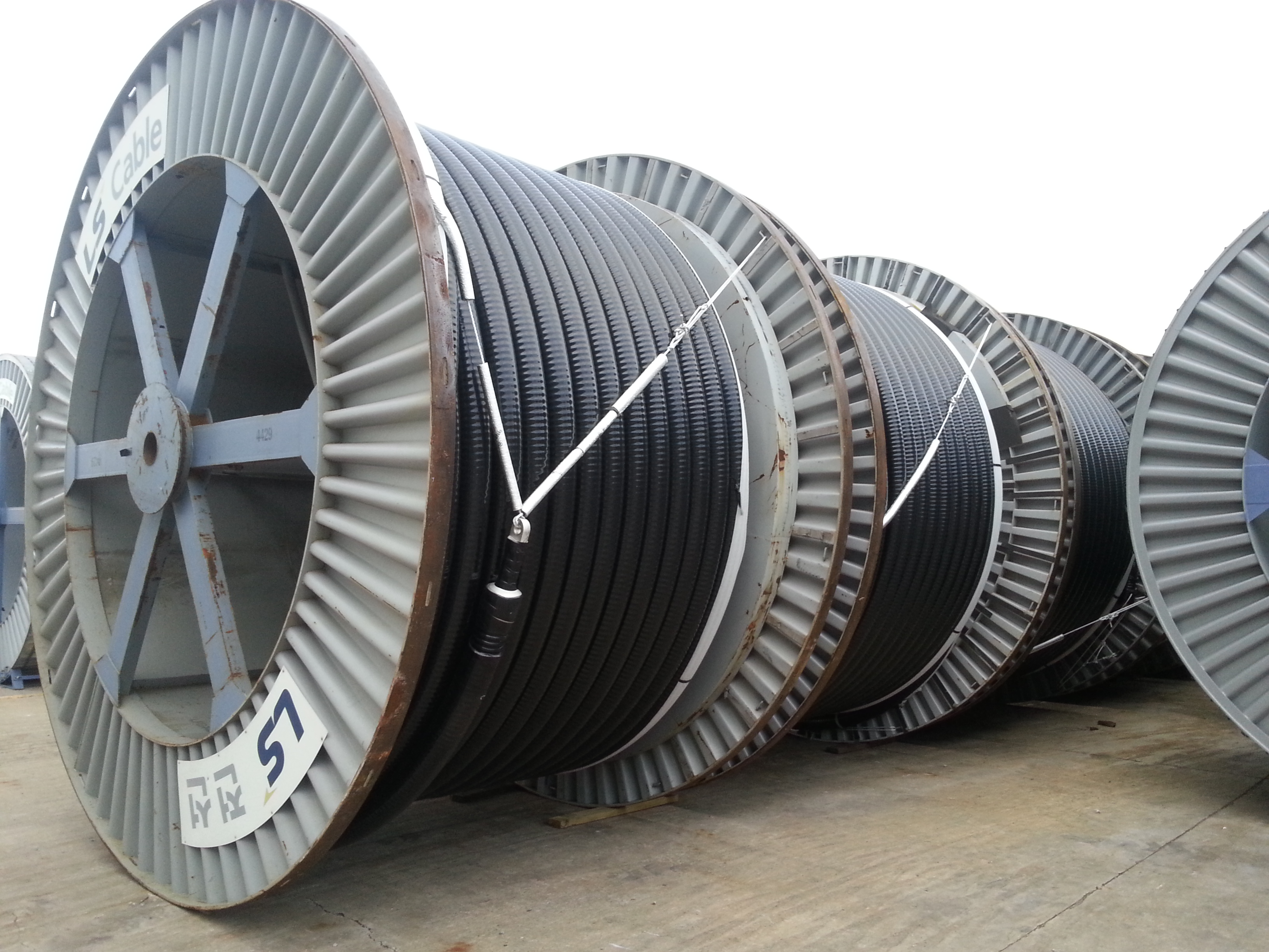 345 kV high voltage cable manufactured by LS Cable & System at their plant in Gumi, South Korea